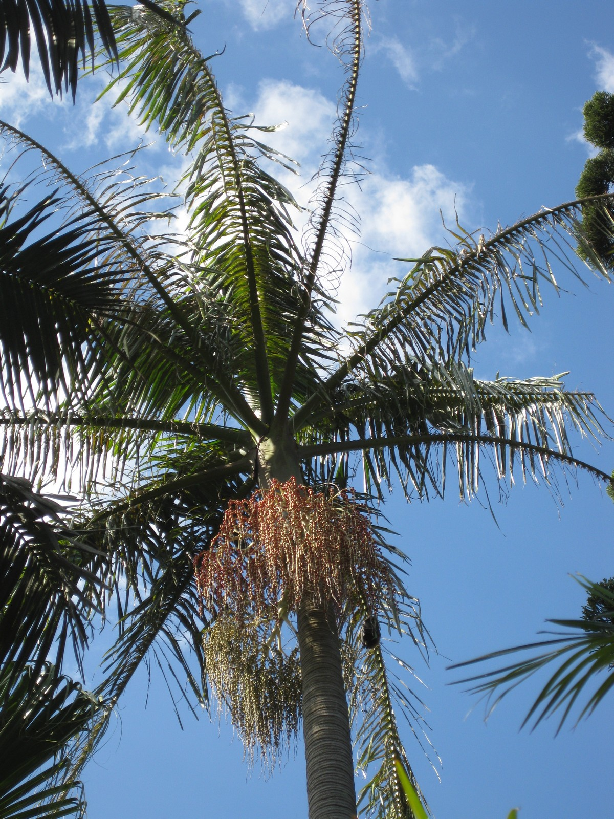 Photographed at the Royal Botanic Gardens Sydney (Australia) in December